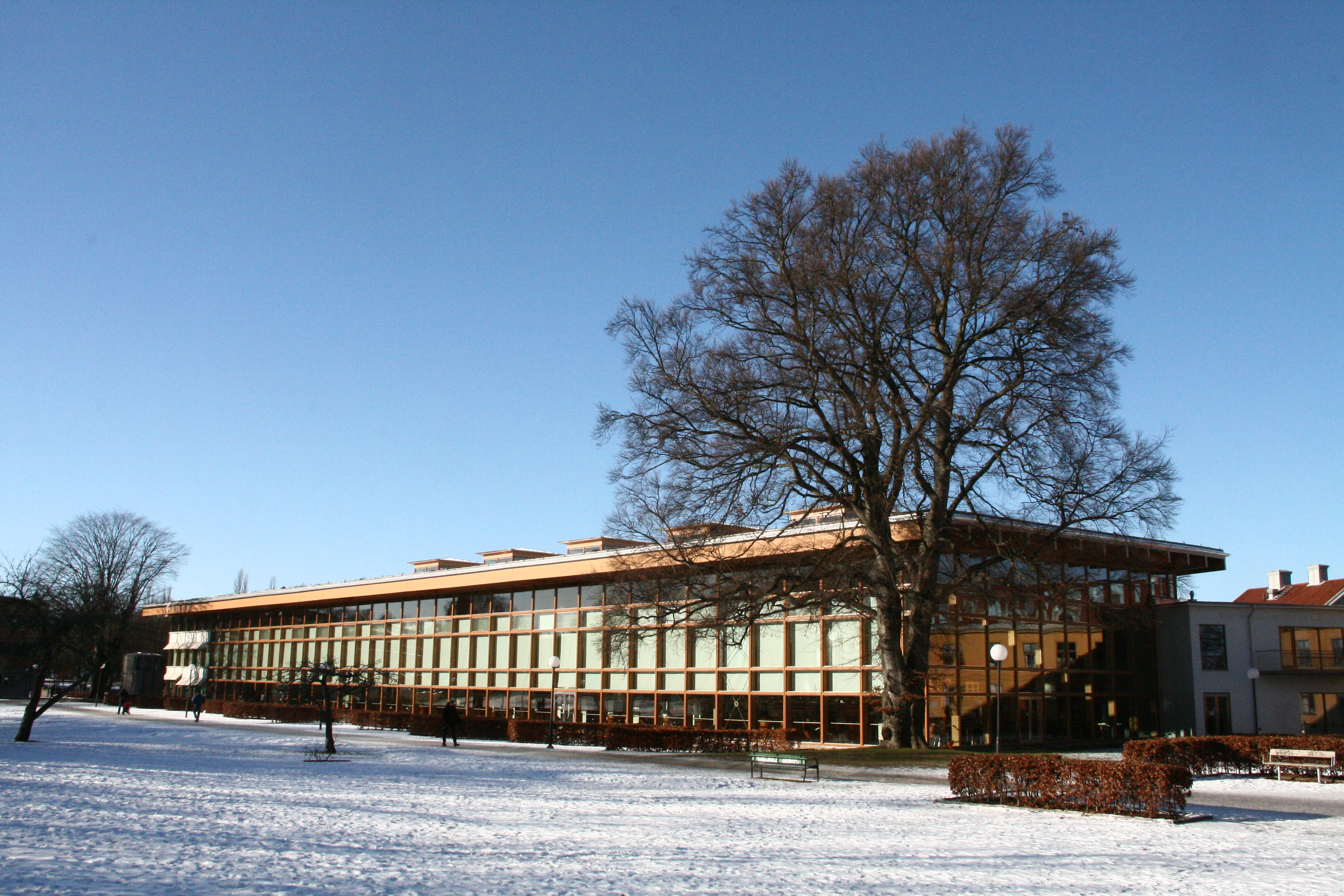 Linköping public library (built 2000), from south-east, in the winter.